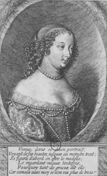 Picture of the Duchess of Rohan with a poem below her